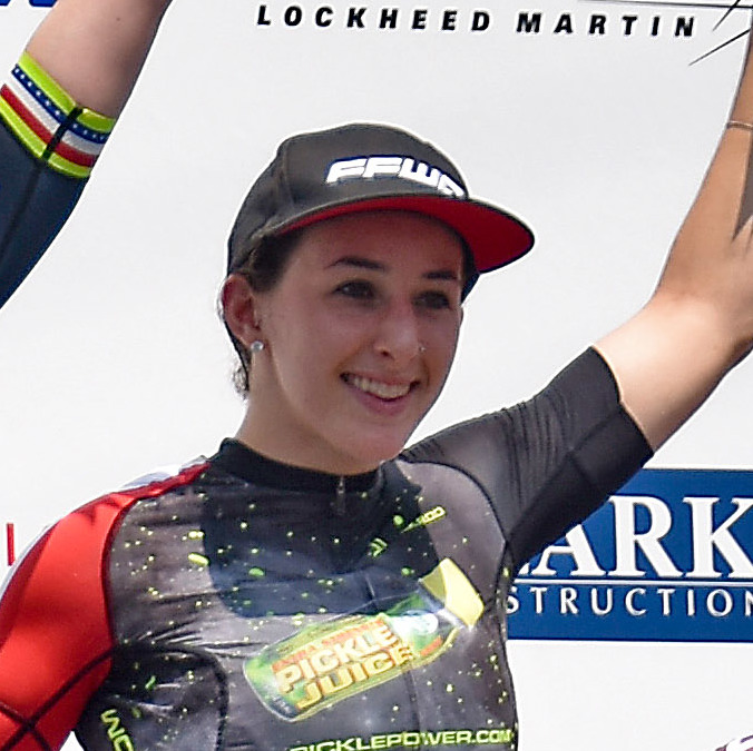 Women's Pro race at the 2019 Armed Forces Cycling Classic in Clarendon (Arlington) VA Sunday June 2, 2019.Winner was Kendall Ryan of Team TIBCO-Silicon Valley Bank. 2nd Natalie Redmond (Fearless Femme Racing p-b Altam) 3rd Harriet Owen (Hagens Berman), Maggie Coles-lyster of Pickle team